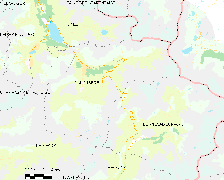 Map of French municipality Val-d'Isère